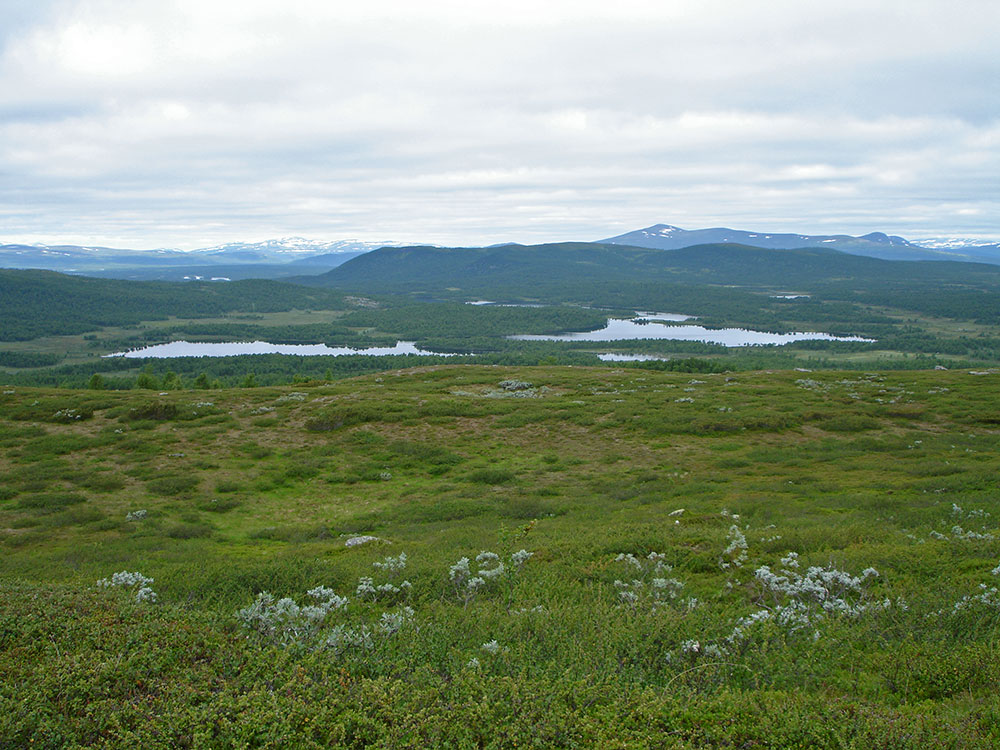 Lake Silisen viewed från Mount Valfjället.